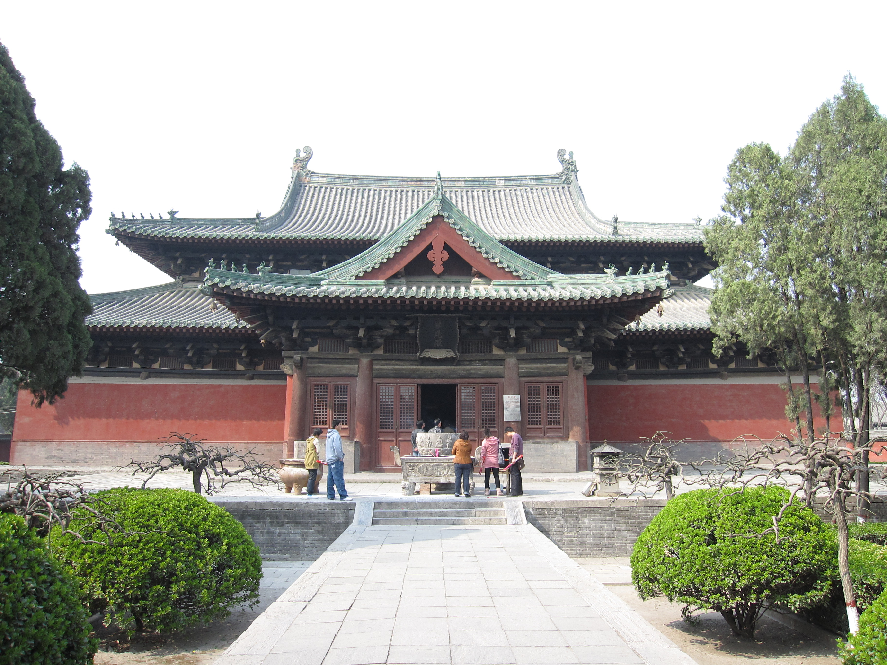 The front of the Manichaean Hall of Longxing Temple, in Zhengding, China.